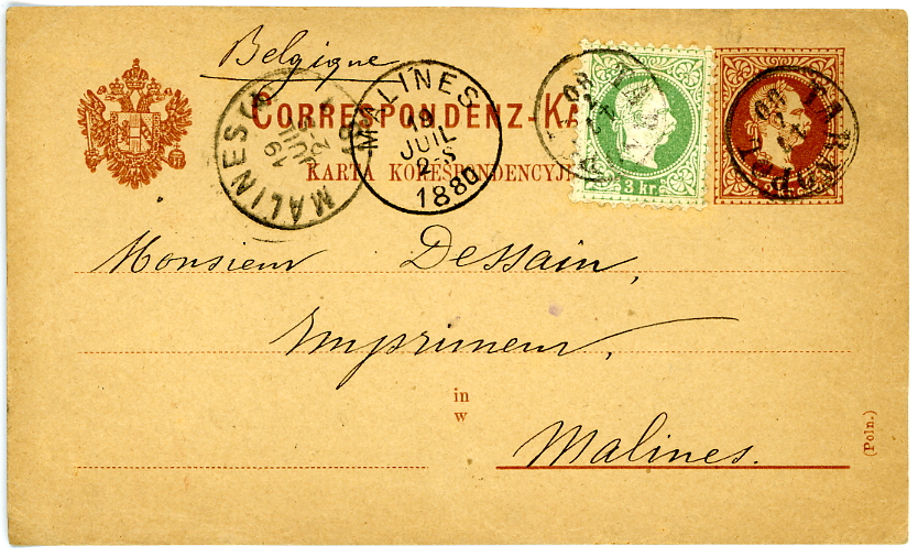 Austrian KK 2 kreuzer postal card, Polish version, sent to Belgium from TARNOPOL (Galicia, Ukraine) in 1880. Arrival postmark MALINES. Additional franking of 3 kr needed.